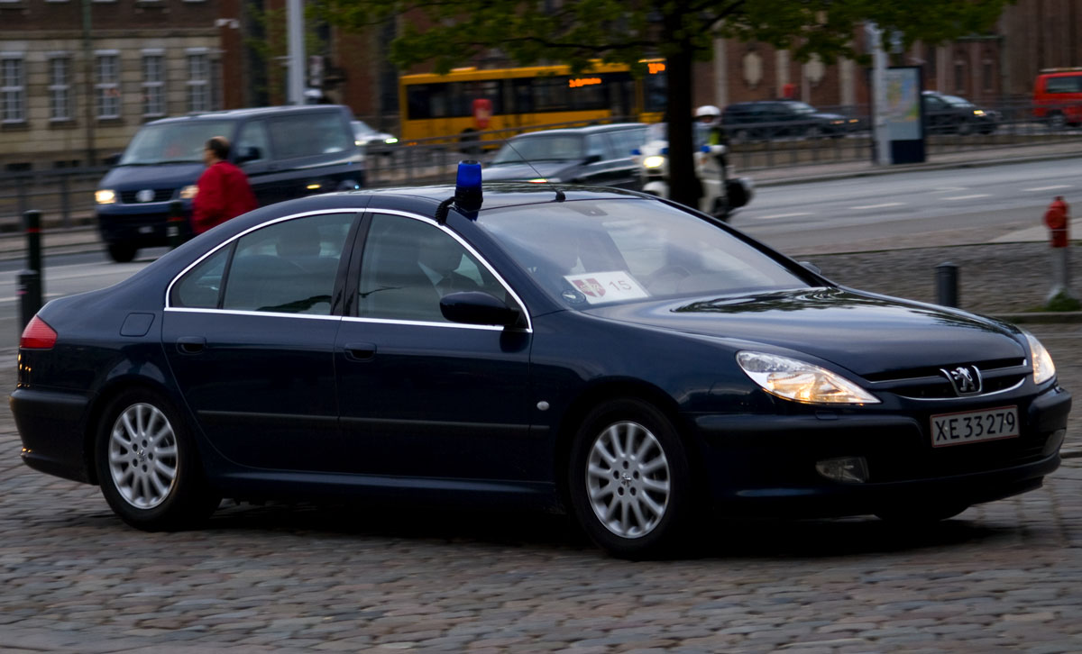 Peugeot 607 operated by the police of DenmarkDansk: Peugeot 607 tilhørende dansk politi